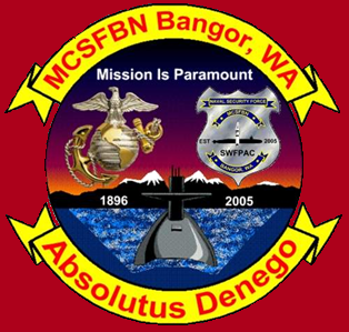 Current Bn crest